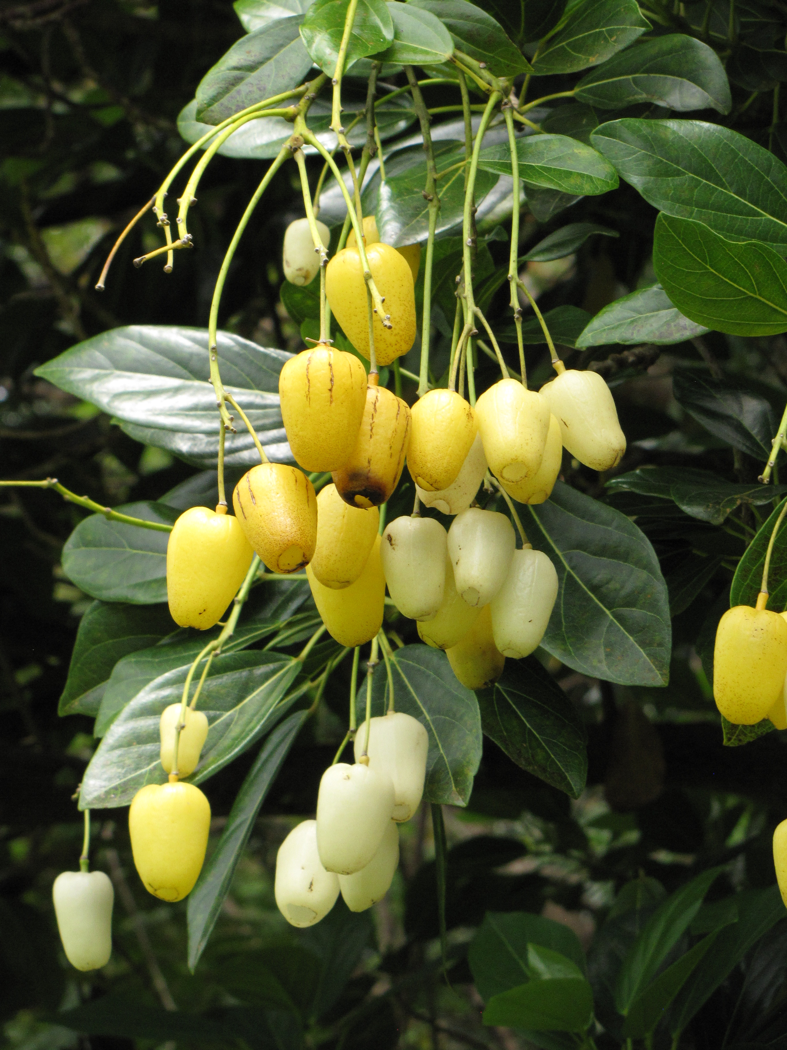 Hernandia moerenhoutiana (Mountain lantern tree) Fruit and leaves at Kahanu Gardens Hana, Maui, Hawaii. June 06, 2012 #120606-6916 Image Use Policy